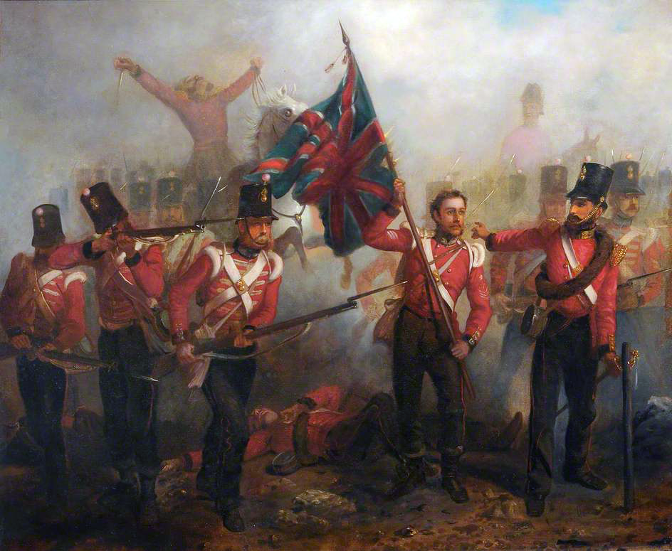 Sergeant Luke O'Connor Winning the Victoria Cross at the Battle of Alma. Oil on canvas.